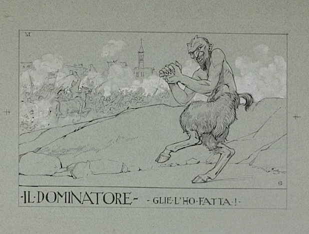 Il Dominatore - Gli l'ho fatta !, chalk & ink sketch by Ottorino Andreini : a devil mocking, while, back behind, German soldiers attack a small village. Dim. : 27 x 36,5 cm.